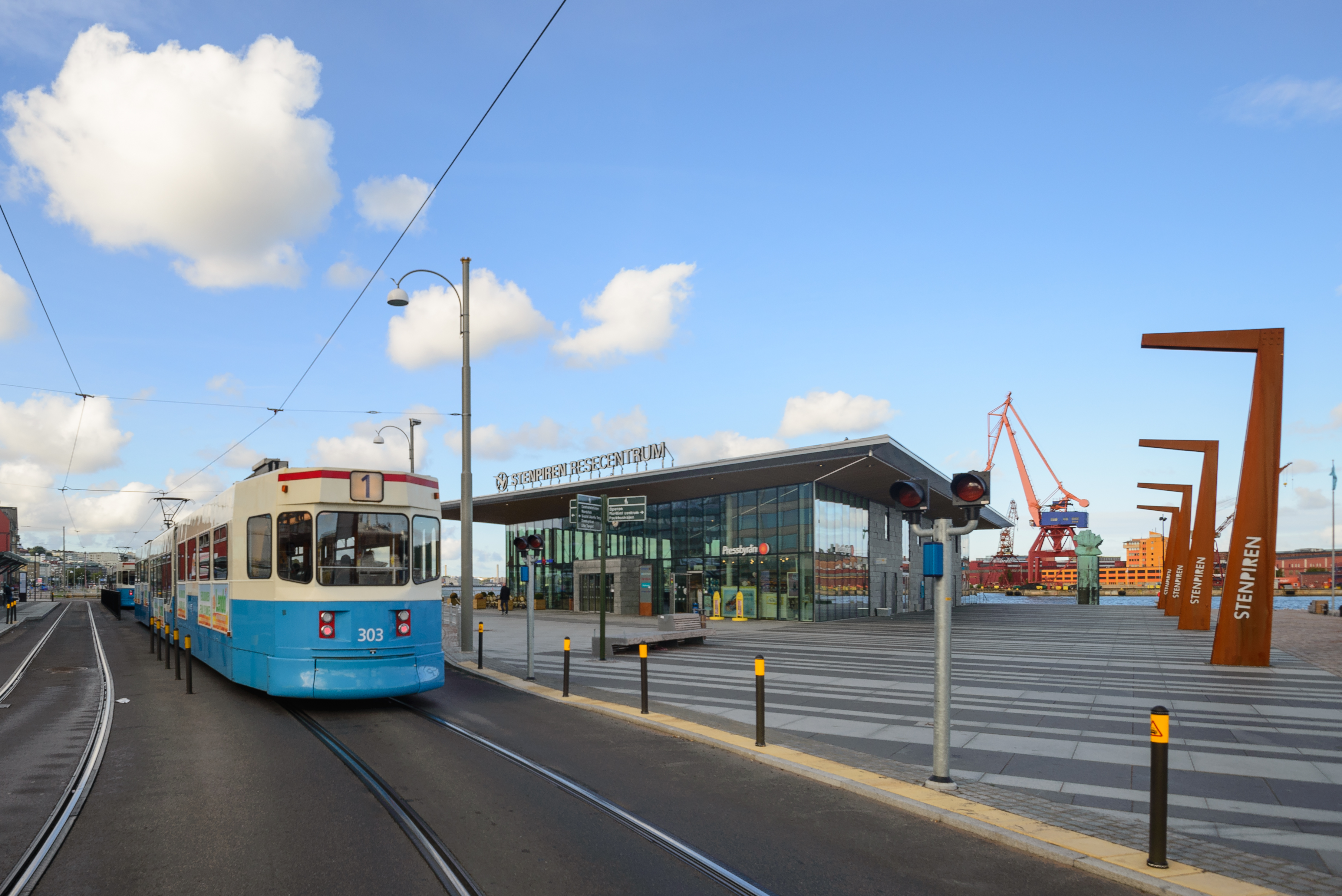 Stenpiren resecentrum, Göteborg.